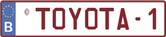 Belgian customized license plate